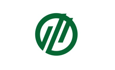 Flag of Nosegawa Nara